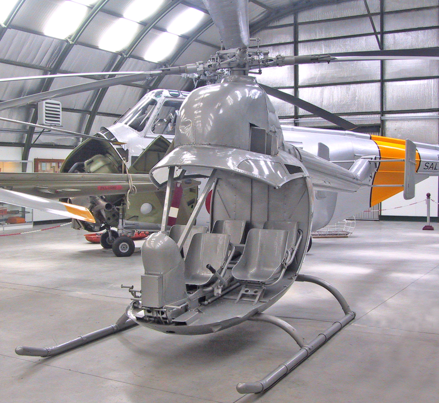 Photograph taken in "Museo del Aire", Spain. I am the author of this picture, and I'd desire everybody could see it freely in Wikipedia. This image is intended to be displayed in Aerotécnica AC-14 article.